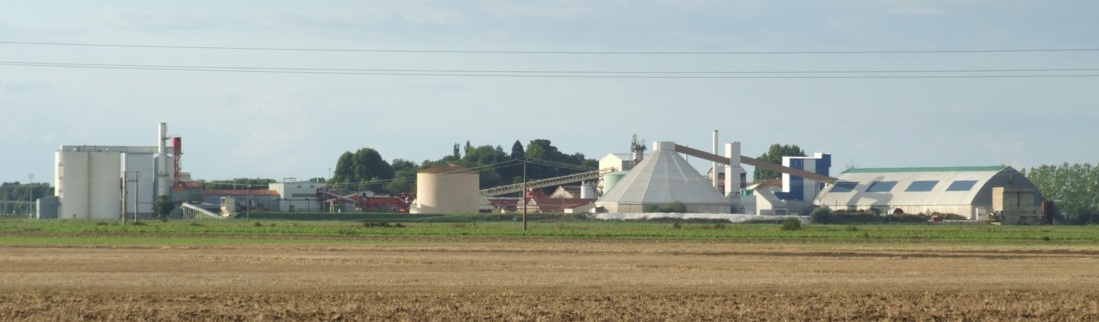 Sugar refinery, Aiserey, Bourgogne, France